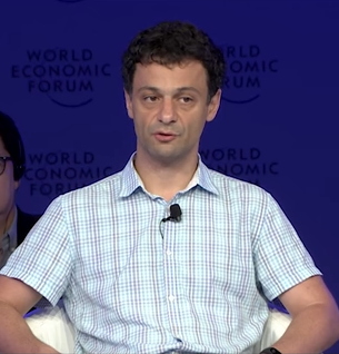 China 2017 - Global Science: The View from Russia